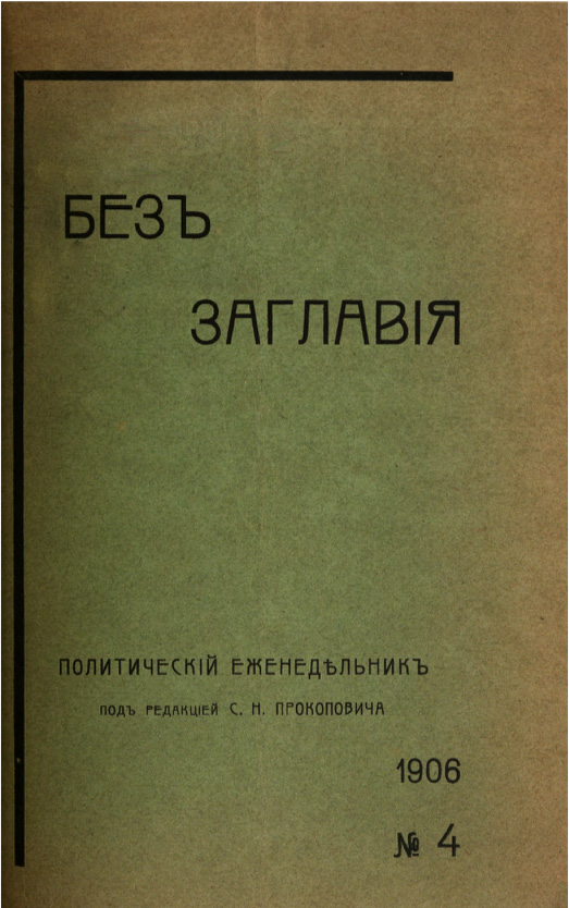 Cover of «Без заглавия» magazine, Russia, 1906